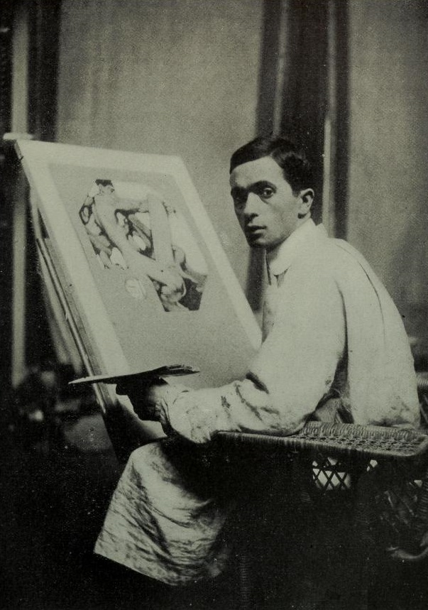 J. C. Leyendecker